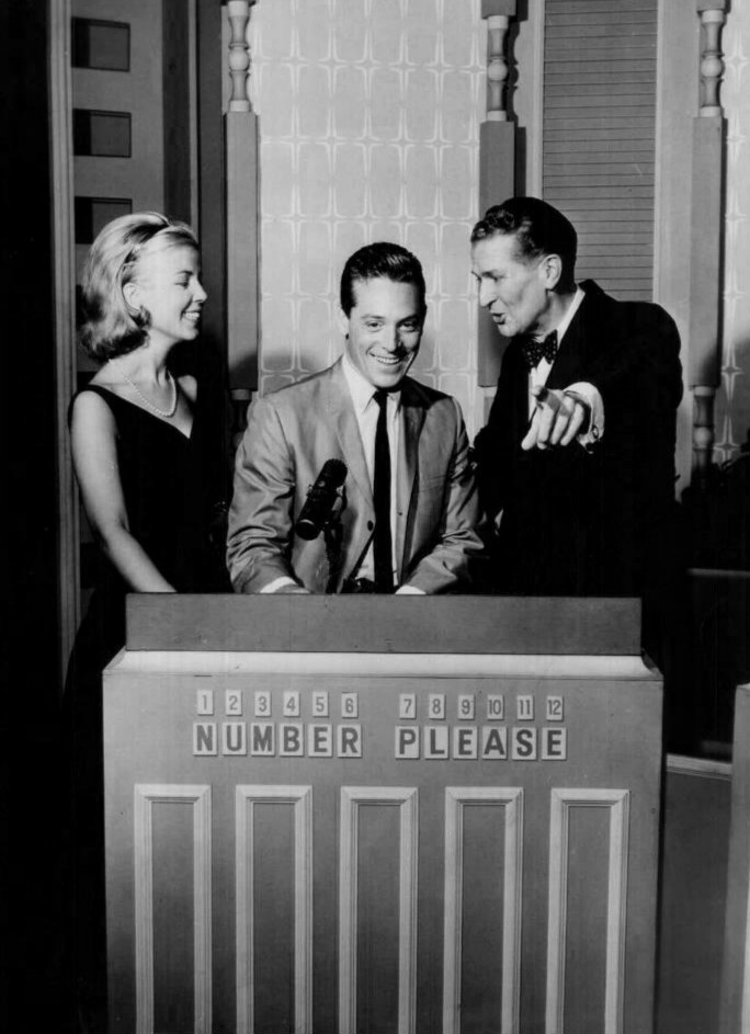 Photo of Reggie Dombeck, actor Paul Burke and show host Bud Collyer from the television game show Number Please.